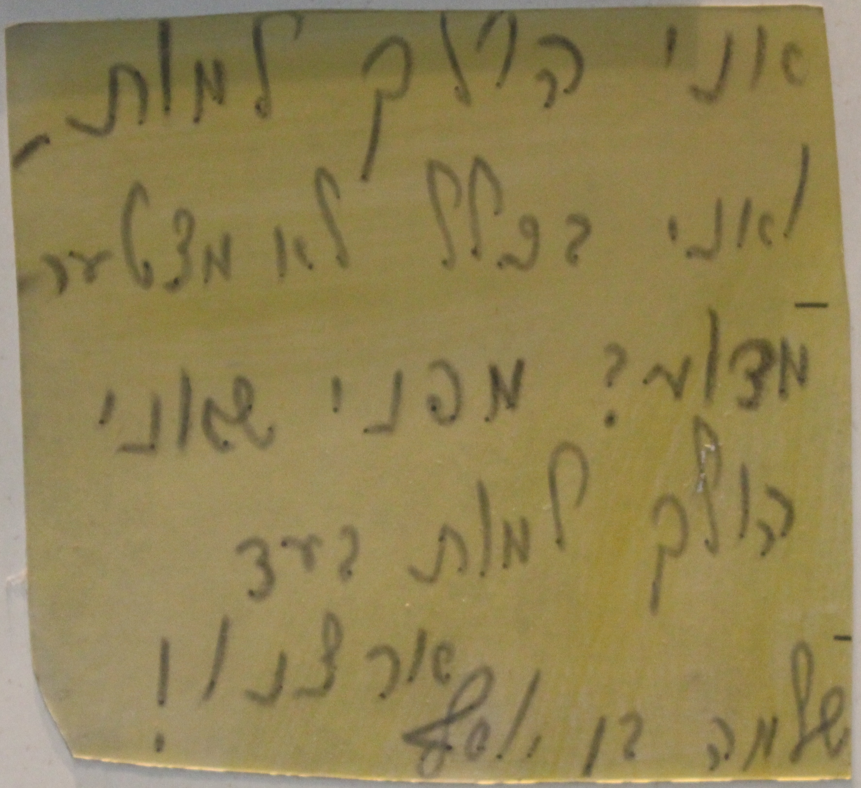 The Lehi Museum, also known as Beit Yair, is placed in the house where the Lehi commander, Avraham Stern (Yair) was assassinated. Including the room where Abraham Stern, Lehi commander, was murdered by a British policeman on 12/2/1942. The site's ID in Wiki Loves Monuments photographic competition is 3-5000-037